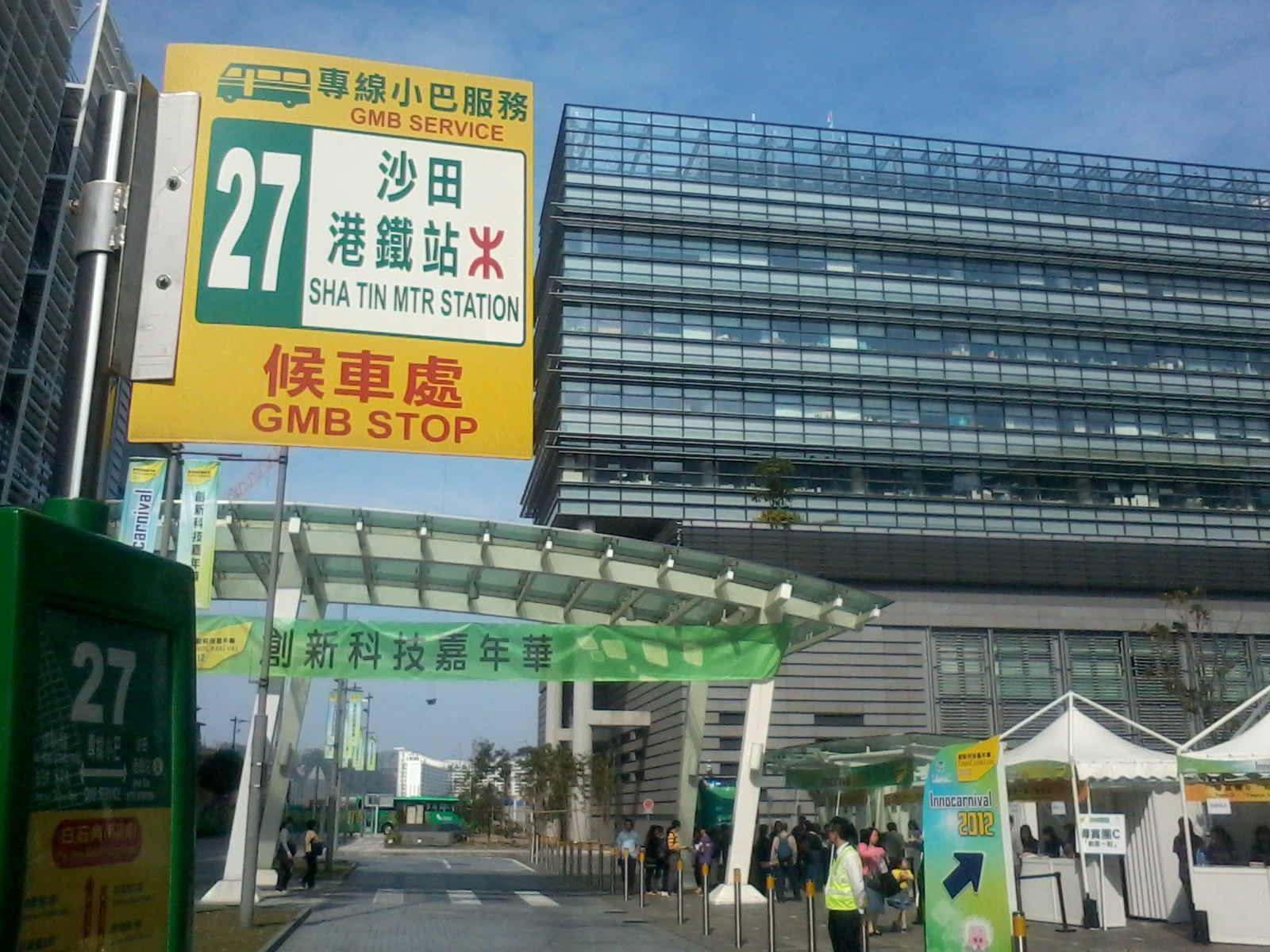 Science Park, Pak Shek Kok, Hong Kong